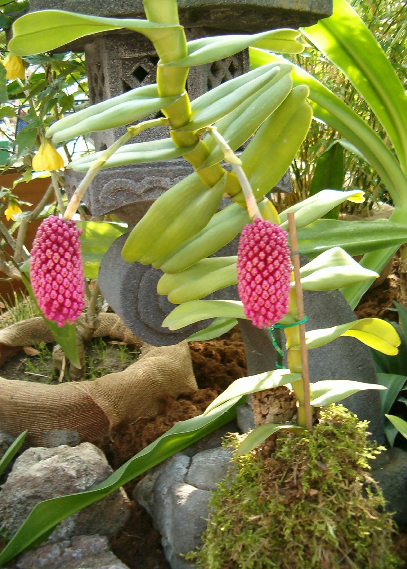 Robiquetia cerina, Habitus and Flowers Location: Botanical Gardens Berlin - Orchid Exhibition